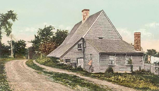 Richard Jackson House, Portsmouth, New Hampshire. living house in New Hampshire.